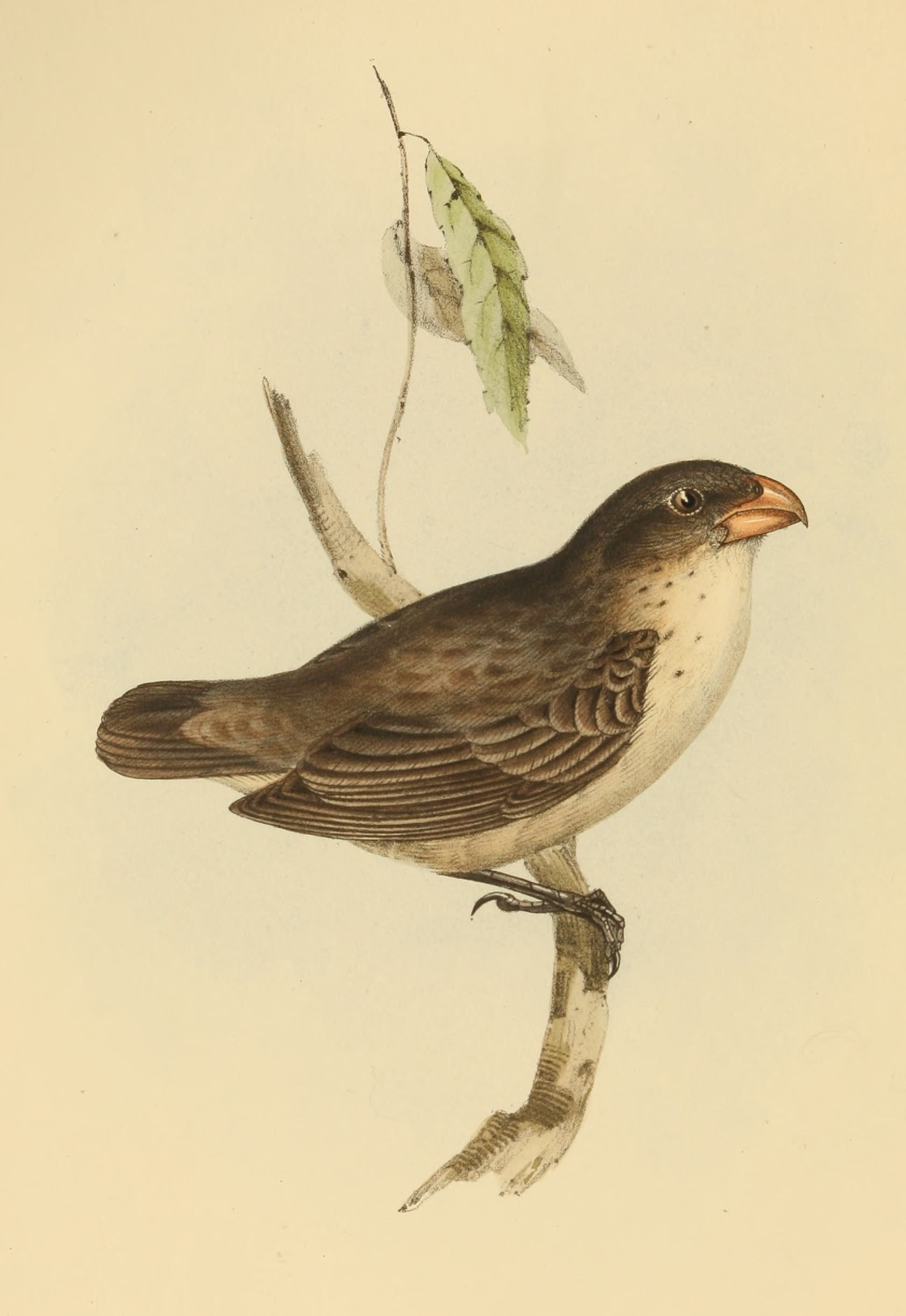 Papageischnabel-Darwinfink (Camarhynchus psittacula) (laut Bild: Camarhynchus psittaculus)